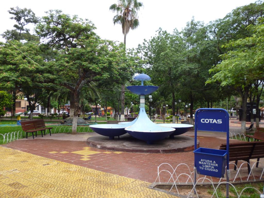 Bolivia Central Park, December 2011